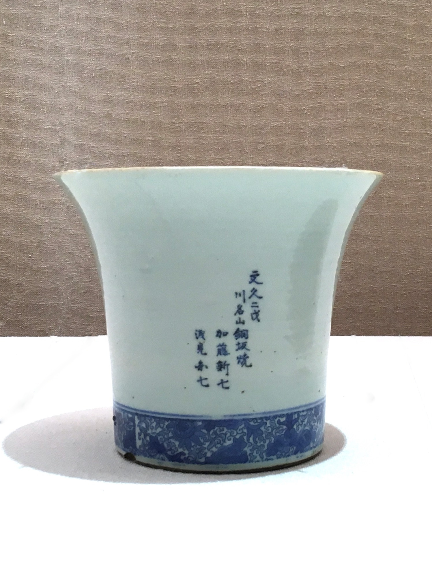 Jar porcelain, decoration transfer-printed in blue under a transparent glaze Kawana ware, Owari (Aichi) middle of the 19th century; Edo period Nagoya City Museum (#210)